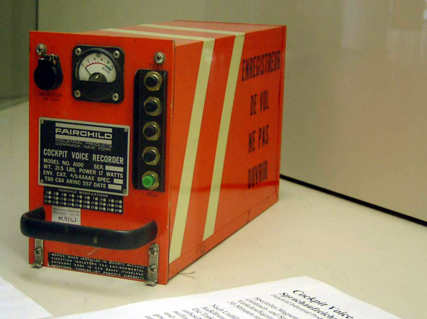 Cockpit Voice Recorder (Exhibit in Deutsches Museum, Munich, Germany)